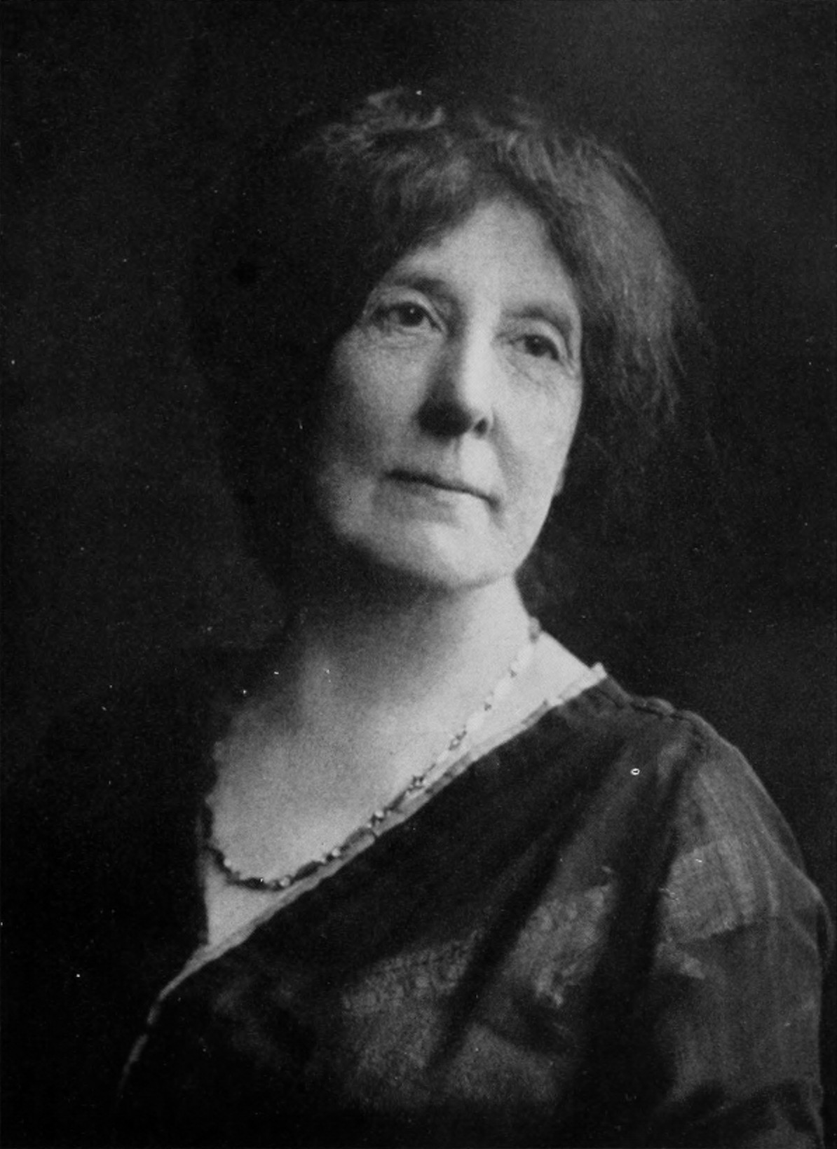 Victoria Conkling-Whitney, Kajiwara Photo, Johnson, Anne (André) "Mrs. Charles P. Johnson", 1871-. Notable women of St. Louis, 1914; (Kindle Location 4402). [St. Louis, Woodward.]